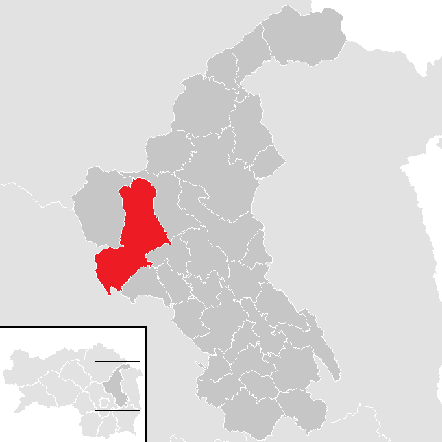 district Weiz